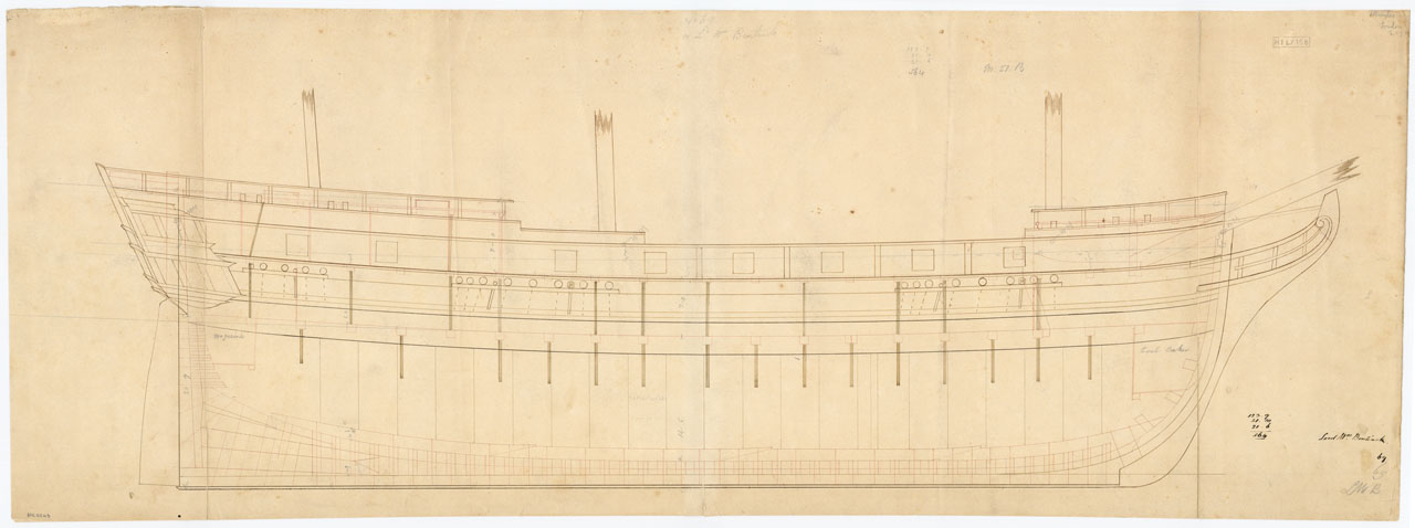 'Lord William Bentinck' (1828) Scale: 1:48. Plan showing the inboard profile for 'Lord William Bentinck' (1828), a 123ft, three-masted merchant ship. Mould Loft Number 69. The Lloyd's Survey Report (LON2338) confirms the builder, dimensions and tonnage, as well as notes that in 1829 she had part of her keel replaced in consequence of 'having been onshore'. 'Lord William Bentinck' (1828)